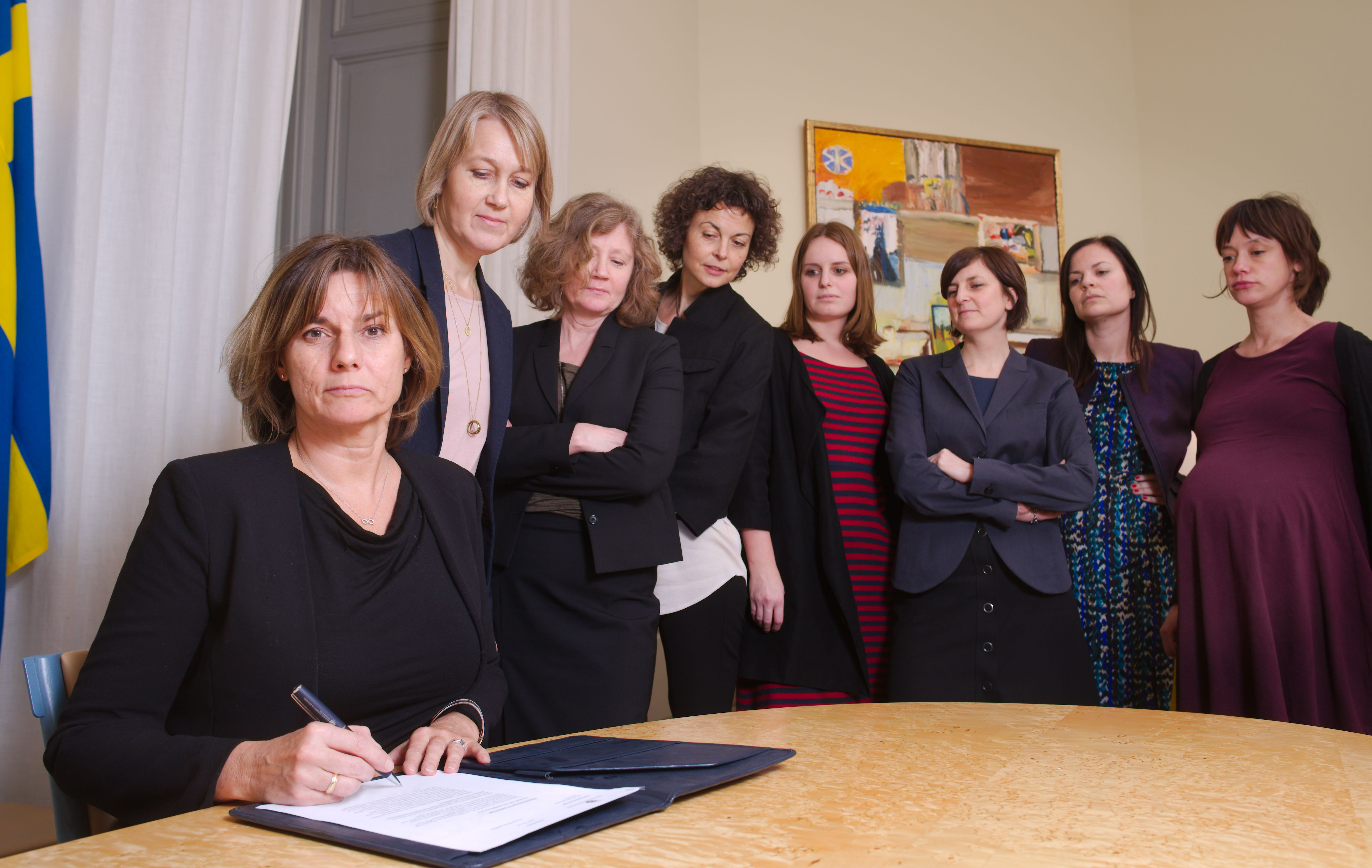 The referral of the Swedish climate law is signed by Deputy Prime Minister and Minister for International Development Cooperation and Climate Isabella Lövin. All future governments will be obliged to reduce greenhouse gas emissions. For a better planet and a better future. From left to right: Isabella Lövin, Deputy Prime Minister; Ulrika Modéer, State Secretary; Eva Svedling, State Secretary; Annika Flensburg, Press Secretary; Mikaela Kotschack, Press Secretary; Katarina Hellström, Political Advisor; Julia Hector, Coordinator; Alexandra von Linde, Coordinator Photo: Johan Schiff/Miljöpartiet de gröna